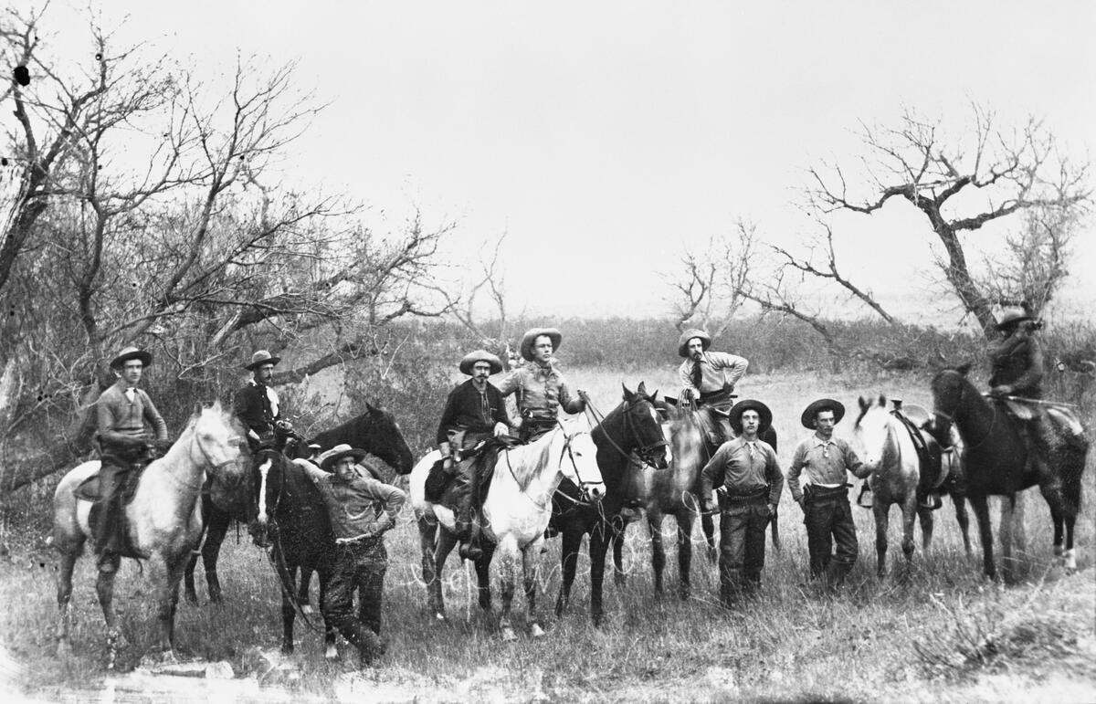 NWMP patrol guarding the border during the 1885 North-West Rebellion. J. H. McIllree, officer in charge, is fourth from the left.